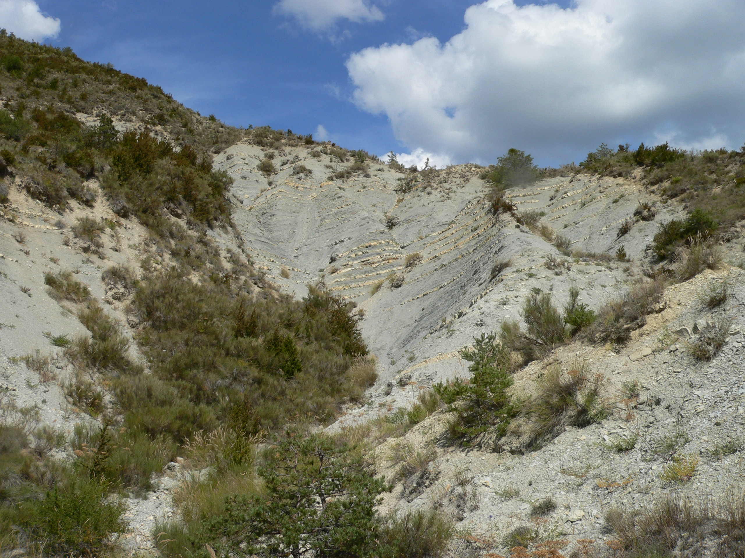 Leaving Col St. Jean, blue marl, with fossils